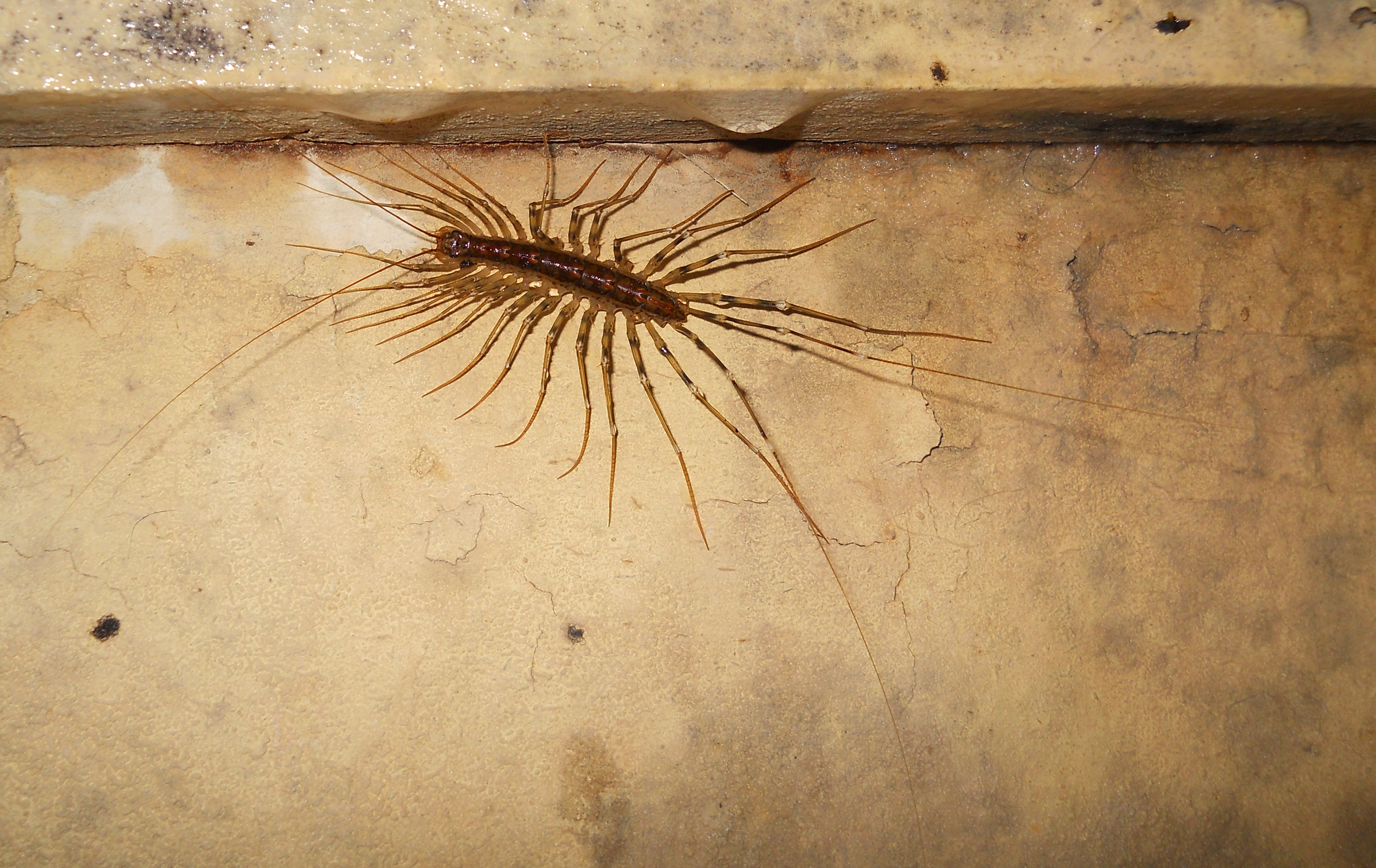 Scutigera coleoptrata with 14 pairs of legs and 1 pairs of signal Mustaches.